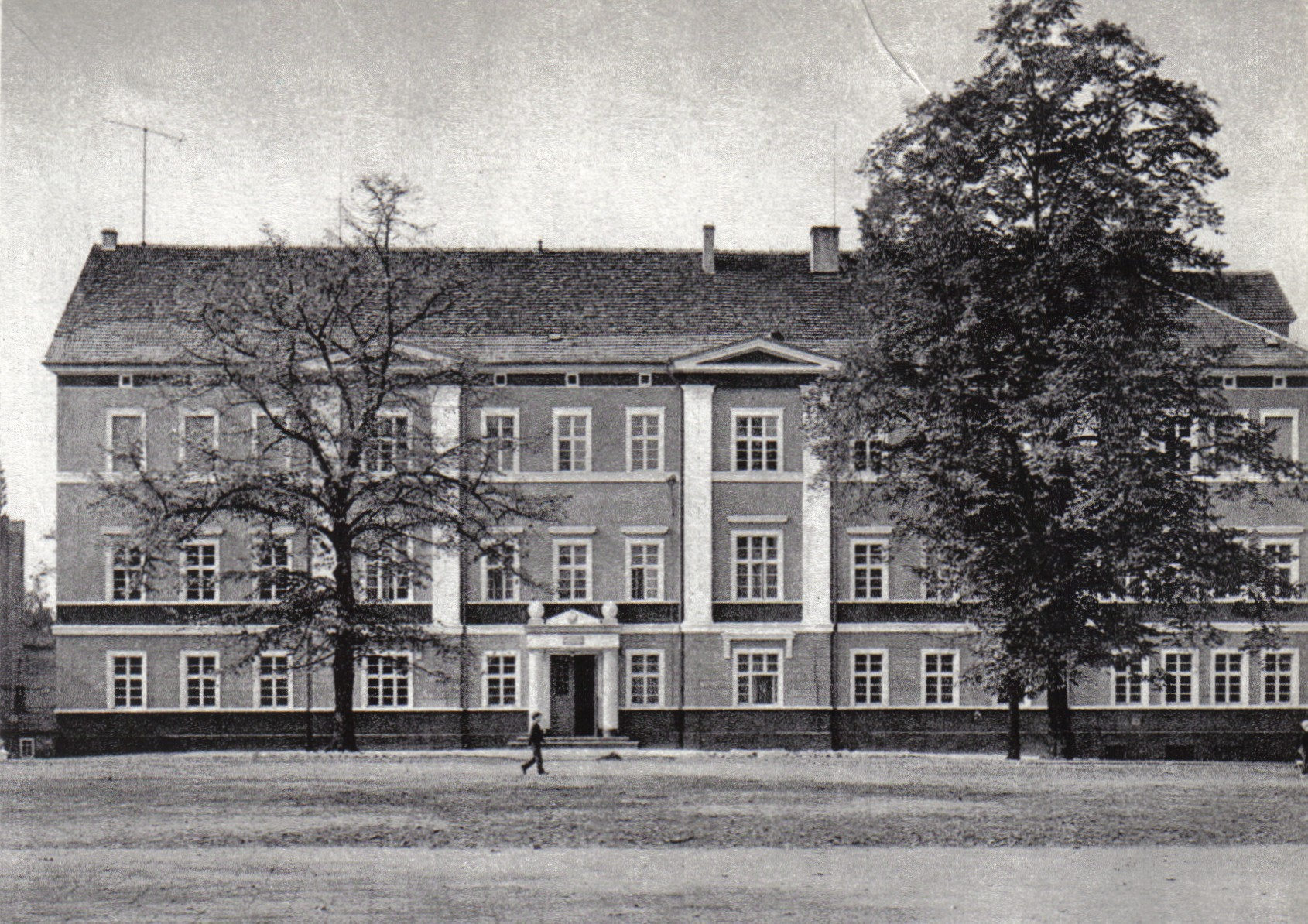 The first building of WSP in Zielona Góra